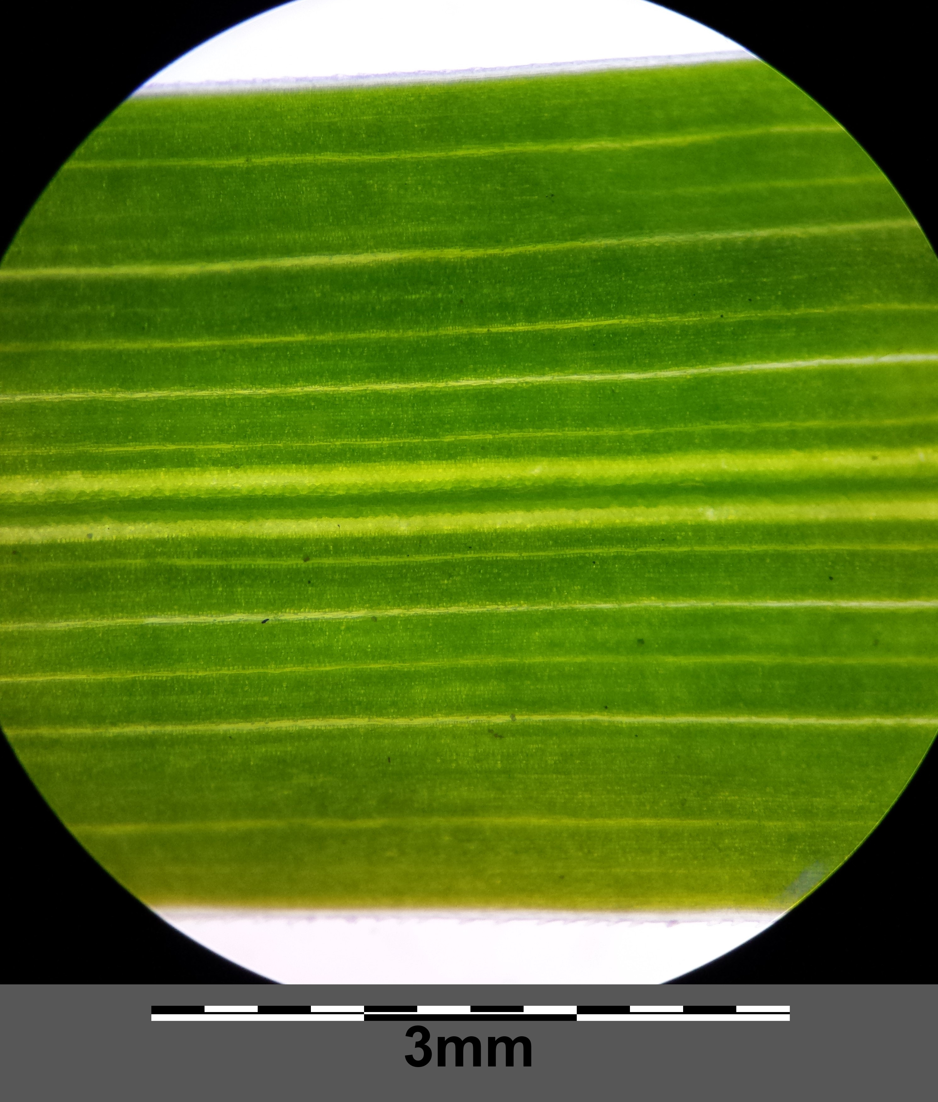 Leaf with double rill Taxonym: Poa pratensis ss Fischer et al. EfÖLS 2008 ISBN 978-3-85474-187-9 Location: next to Schmetterlingswiese in Donaupark, Vienna-Donaustadt - ca. 160 m a.s.l. Habitat: ruderal, dry meadows